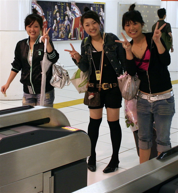 Girls giving peace sign, Tokyo: "Tokyo Peace Corps"